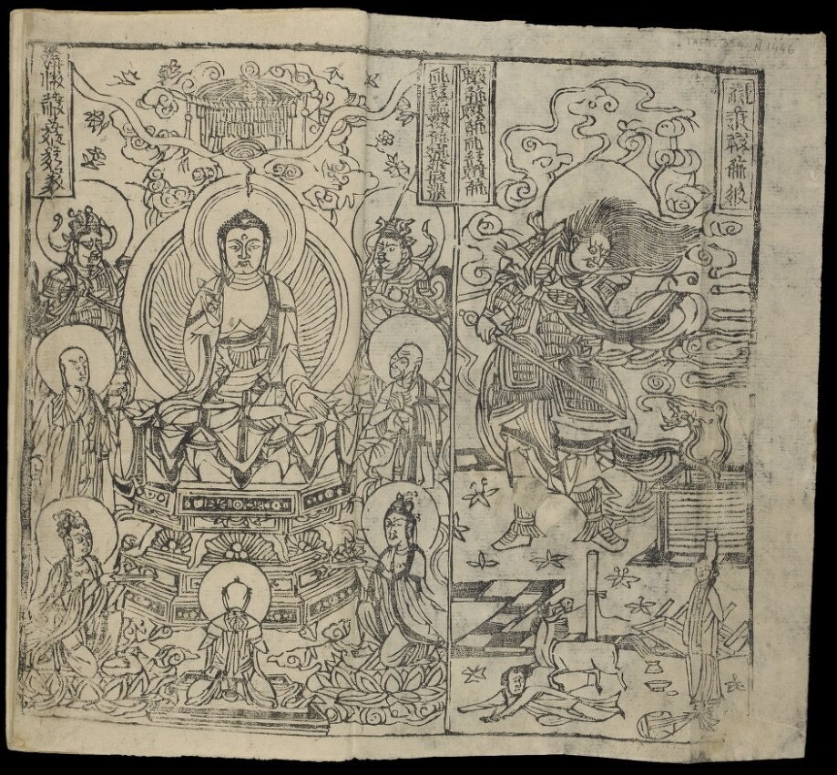 Page from a concertina format woodblock printed edition of the Tangut translation of the Mahaprajnaparamita sutra [10th century-13th century] held at the Institute of Oriental Manuscripts in St Petersberg, Russia (Tang.334/139). Digitized by the Endangered Archives Programme.